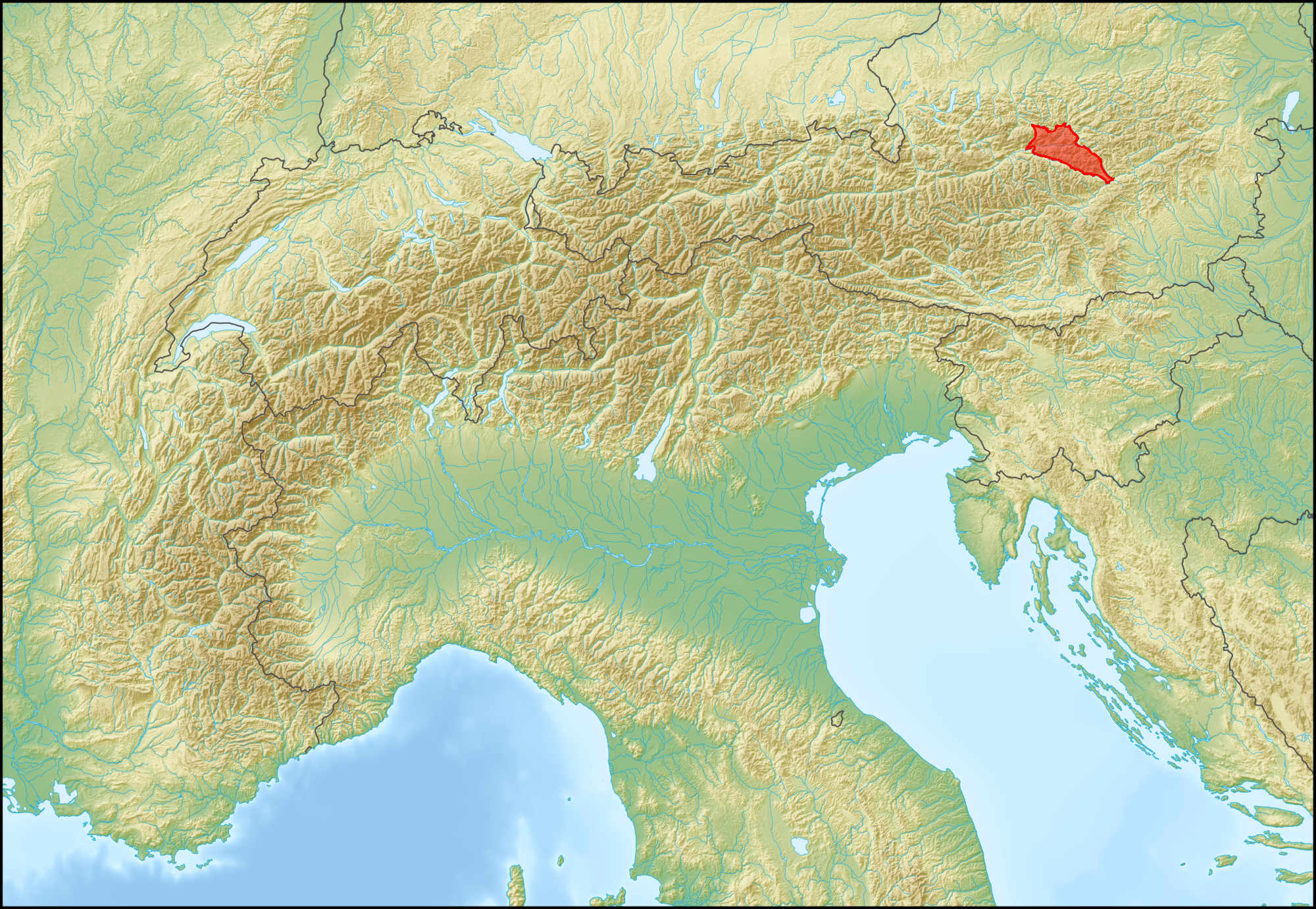 The location of the Ennstal Alps (red) in the Alps.